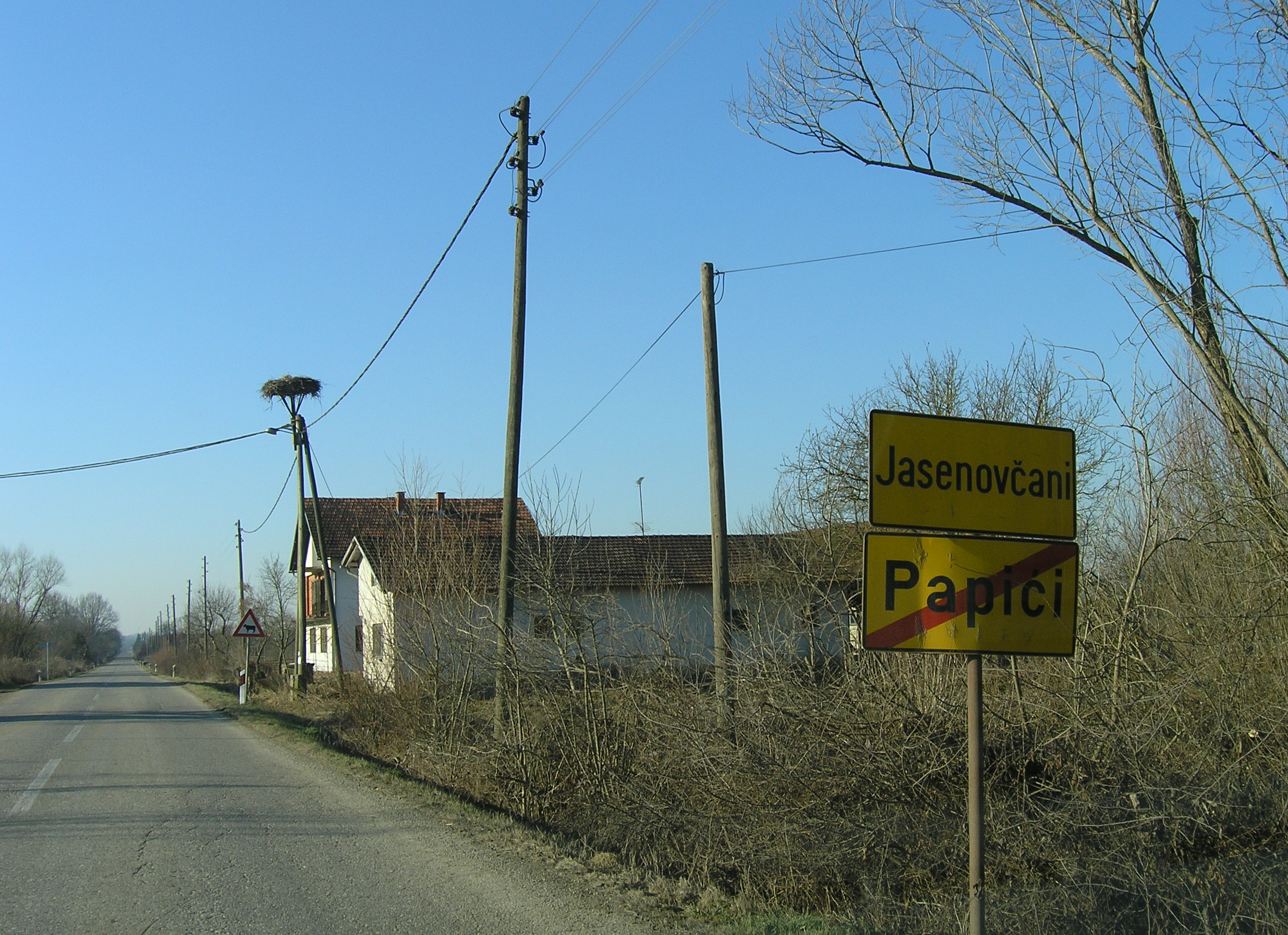 Village Jasenovčani, Sisak-moslavina county, Croatia.